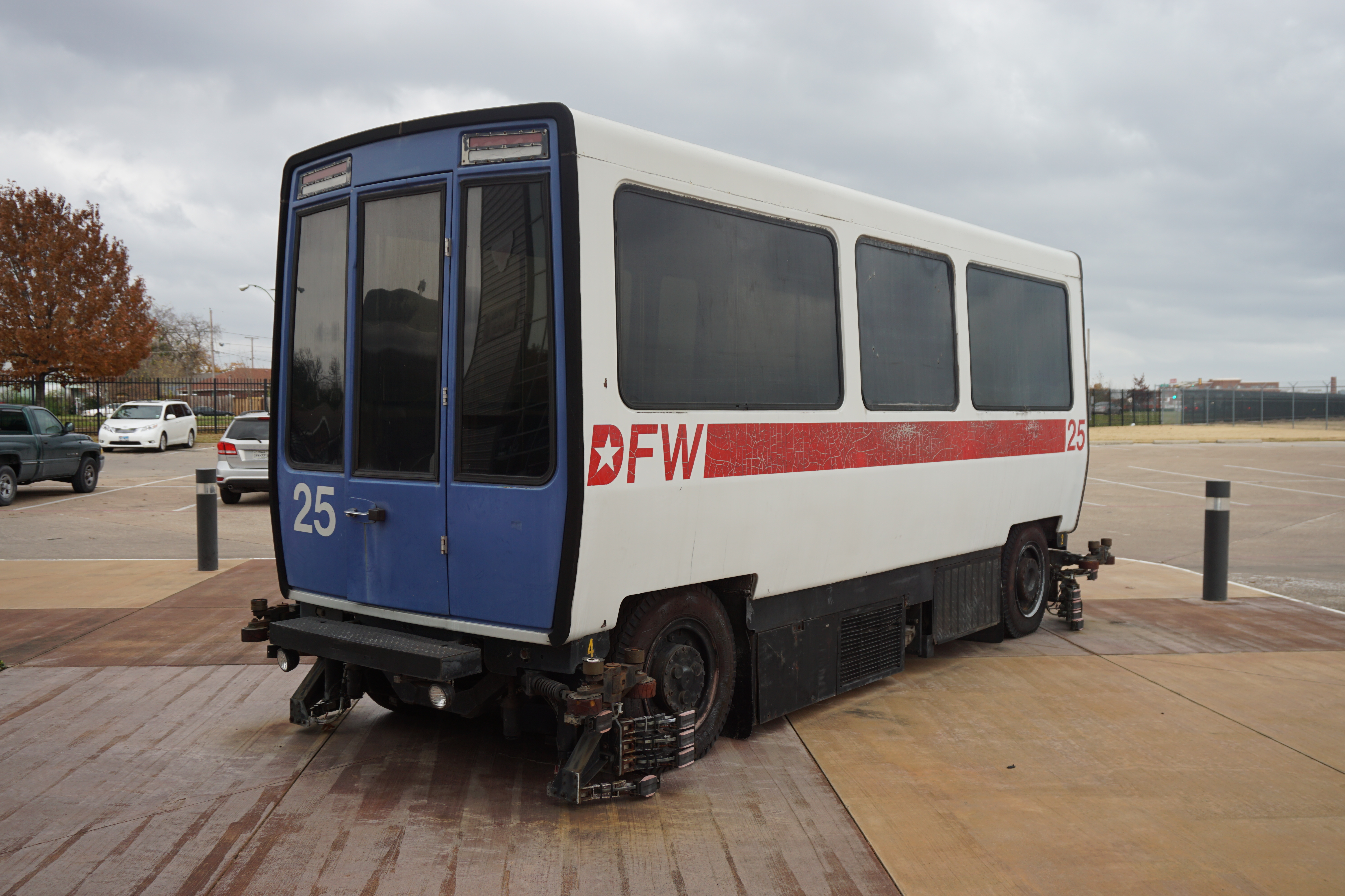 A DFW Vought Airtrans on display at the Frontiers of Flight Museum at Dallas Love Field in Dallas, Texas (United States).